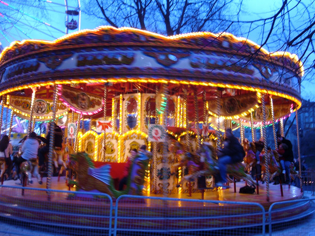 Fairground ride, Princes Street A temporary attraction at the Winter Wonderland Christmas Market in Princes Street gardens.